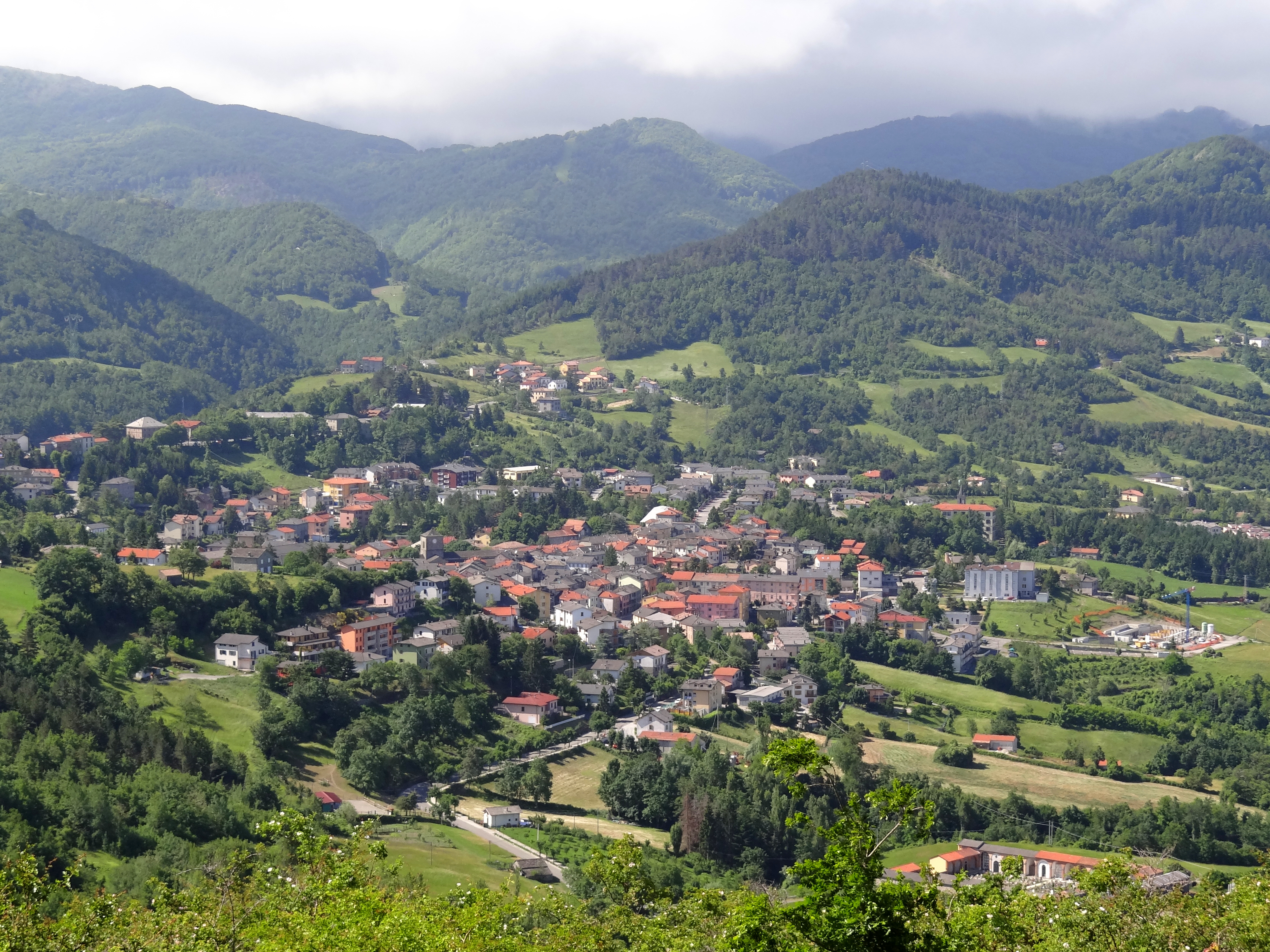 Berceto as seen from the Via Francigena walking trail, approaching the town from the north.